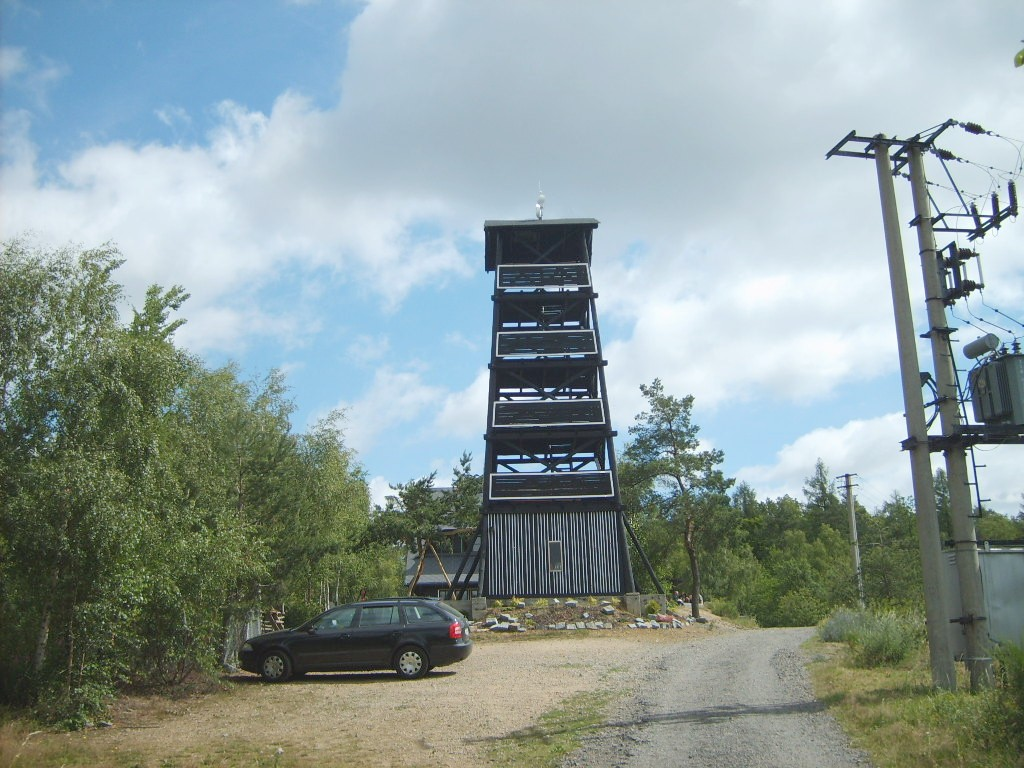 tower on Onen svět hill near Klučenice. CZ